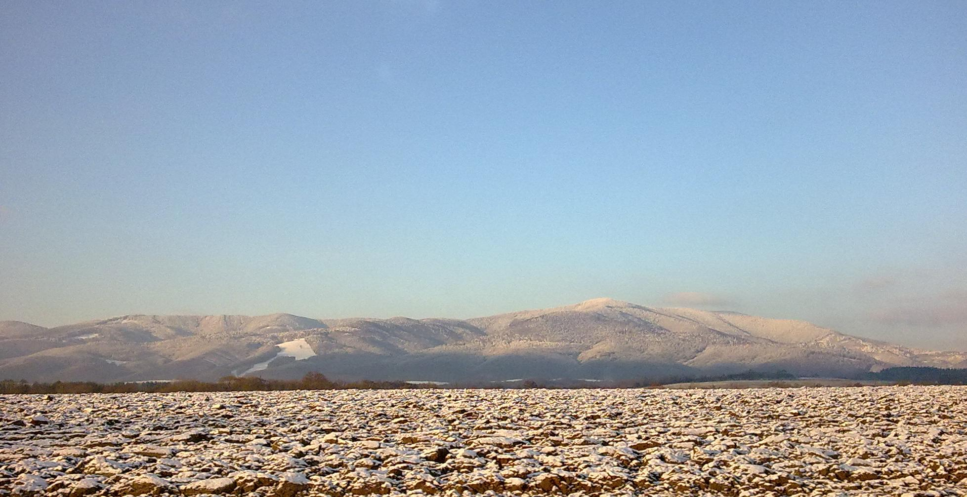 Mala Magura from Nedozery-Brezany